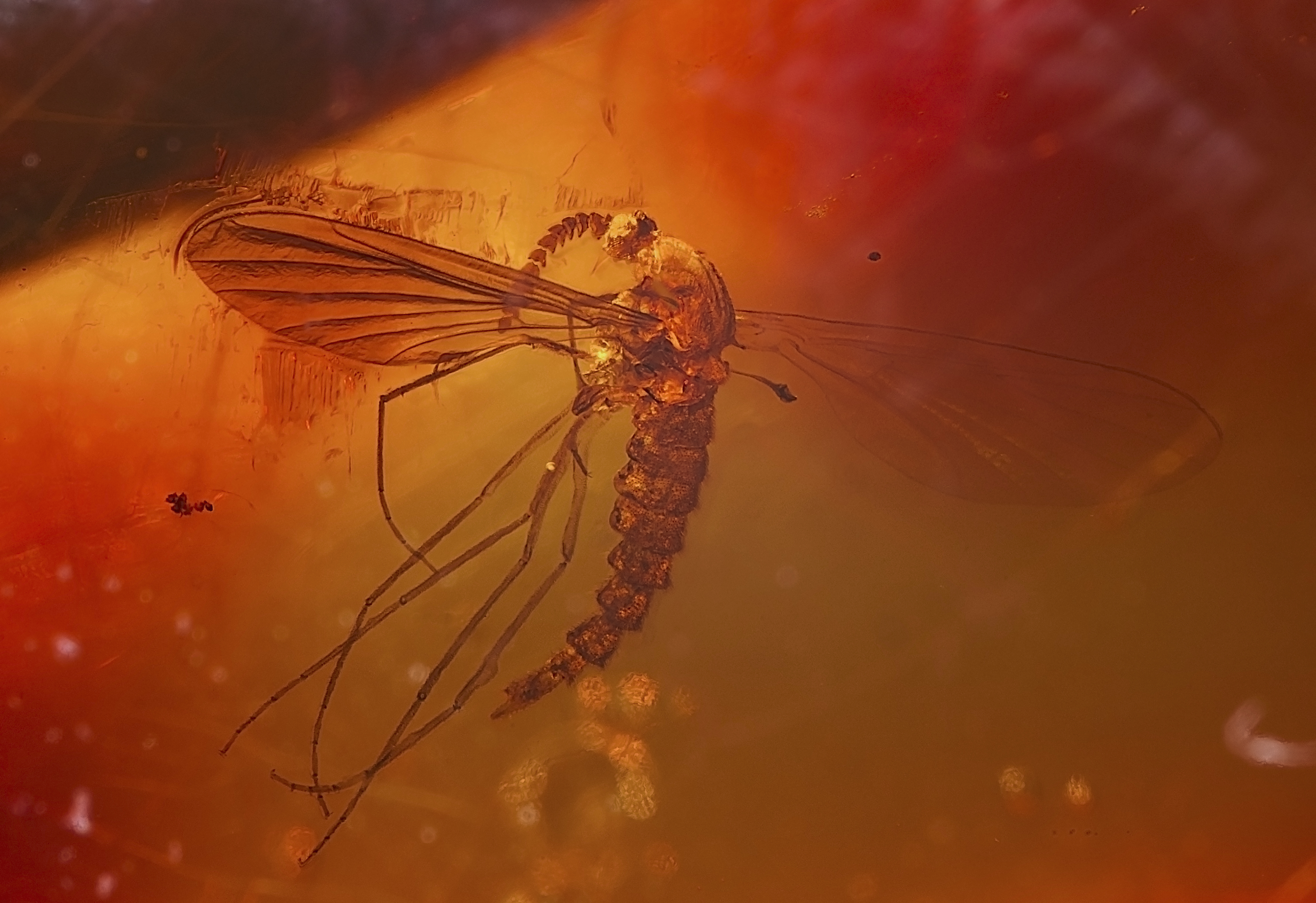 Mosquito in amber Locality : Northern Cordillera, Dominican Republic. Stage : Early Miocene Size of mosquito 1.2 cm